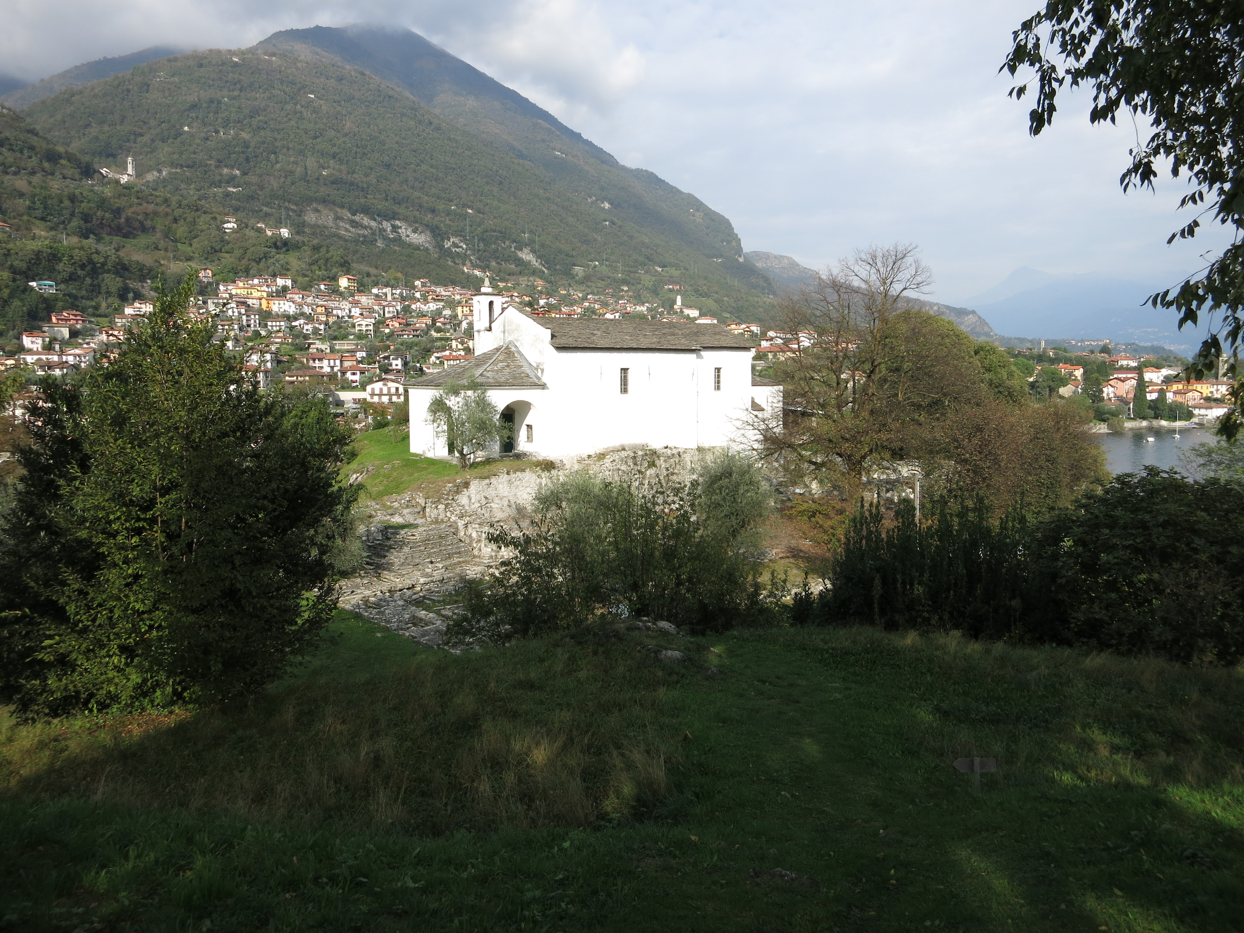 Church San Giovanni on Isola Comacina, Italy